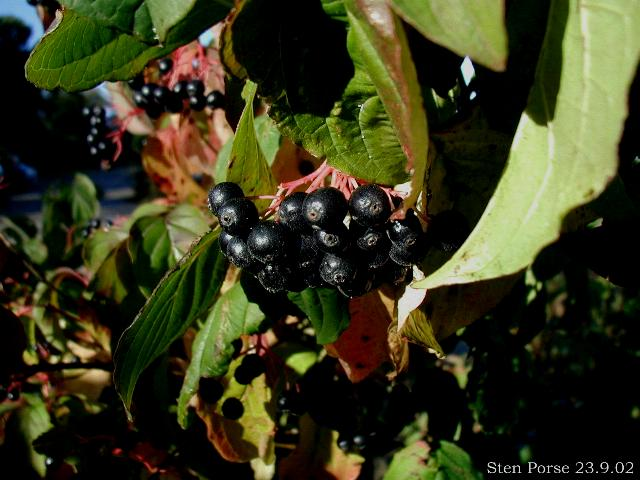 Cornus sanguinea: Fruits